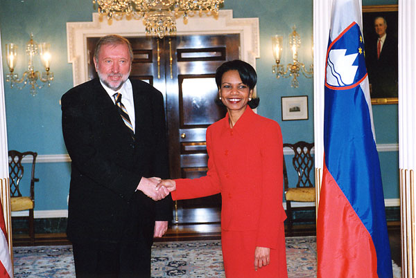 Secretary of State Condoleezza Rice with Dimitrij Rupel, Minister of Foreign Affairs of the Republic of Slovenia after their bilateral.